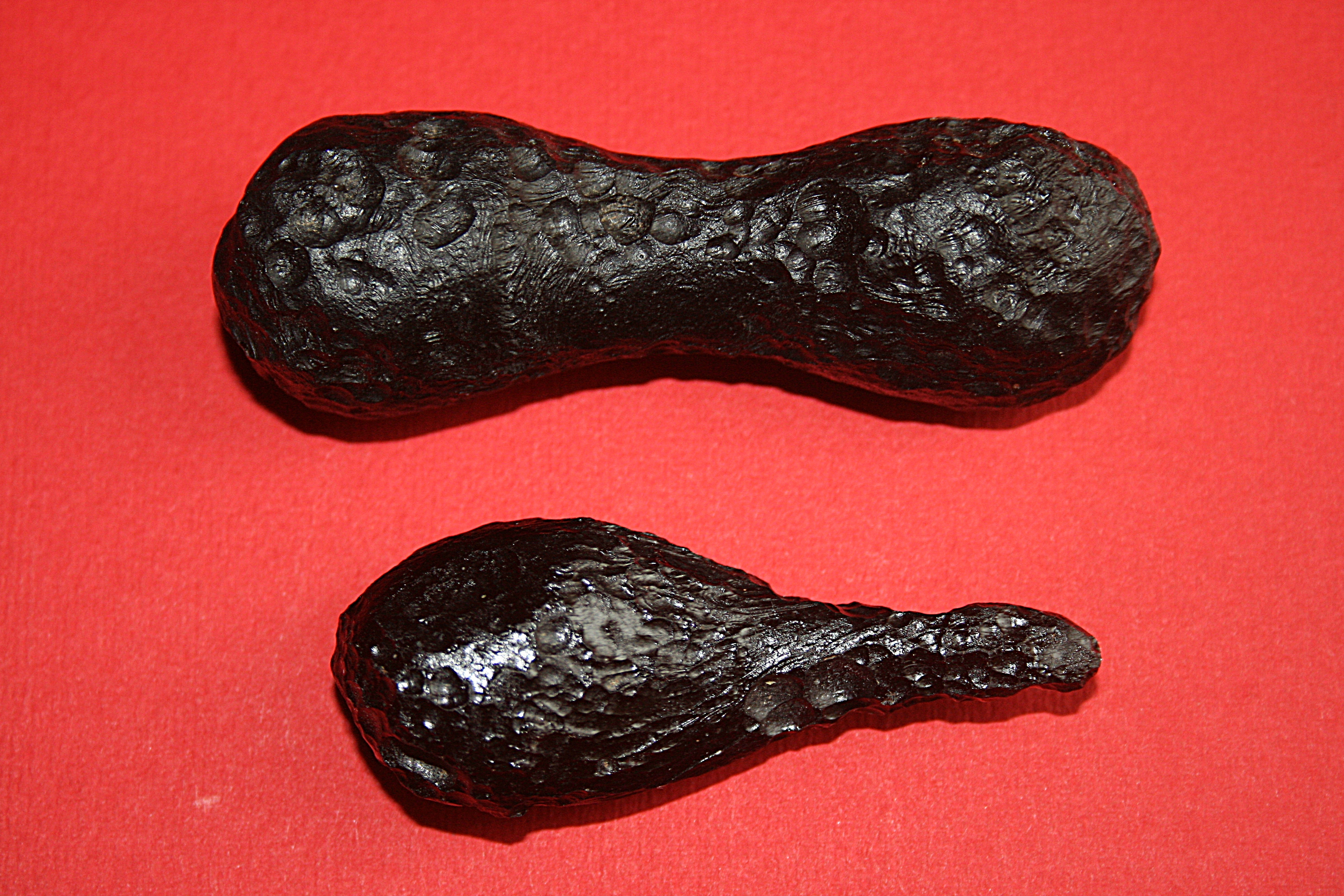 Tektites demonstrate two common shapes: dumbbell and teardrop